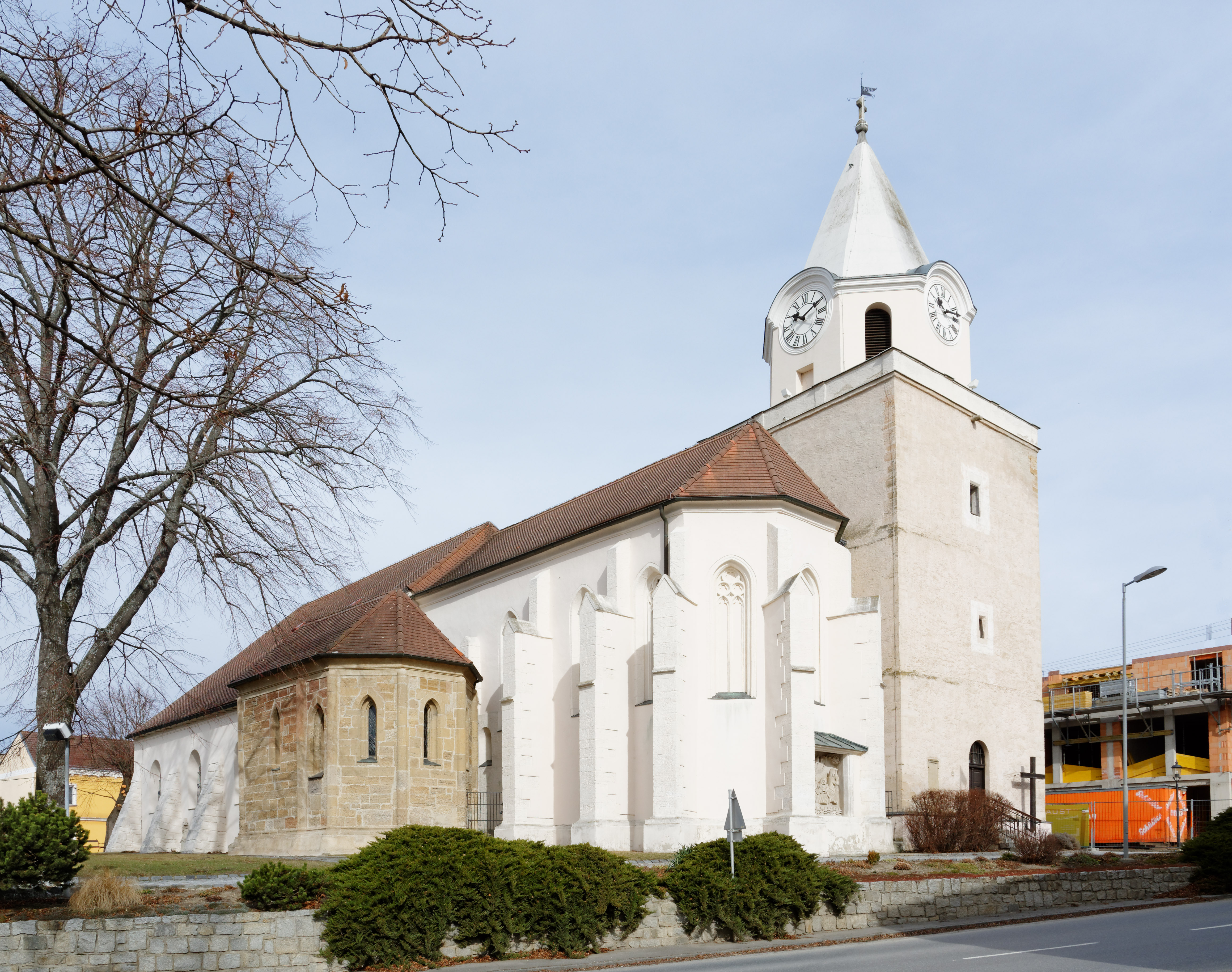 Catholic parish church in Großkrut, Lower Austria, Austria